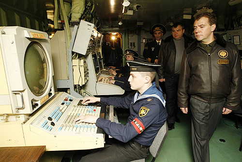 BARENTS SEA. On board the Aircraft Carrier Admiral Kuznetsov.